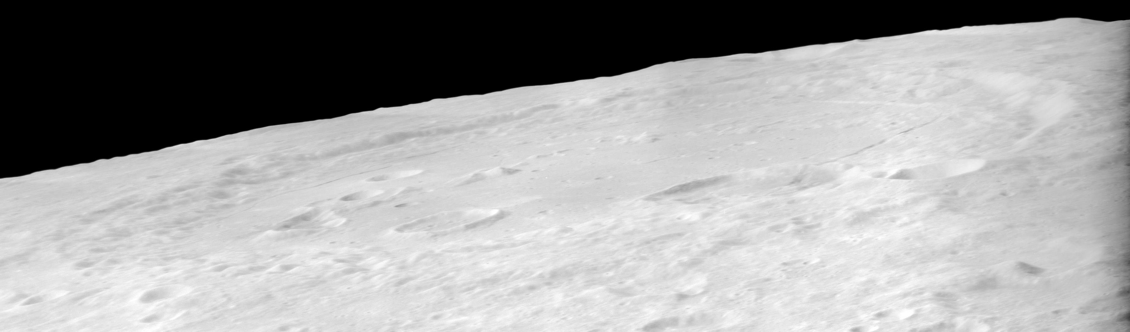 Oblique view of Gauss crater, on the moon, facing west